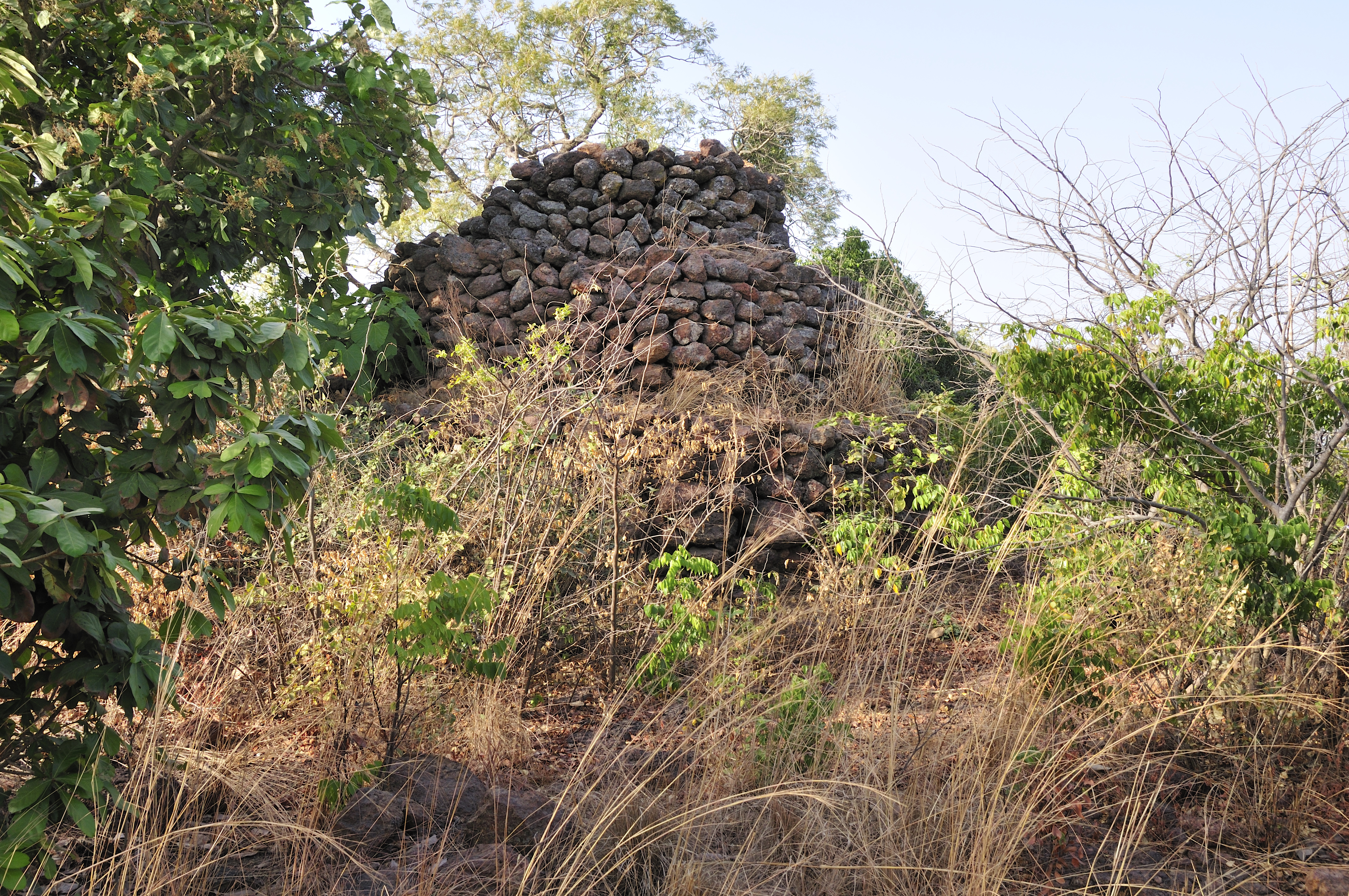 Top of the Tenakourou